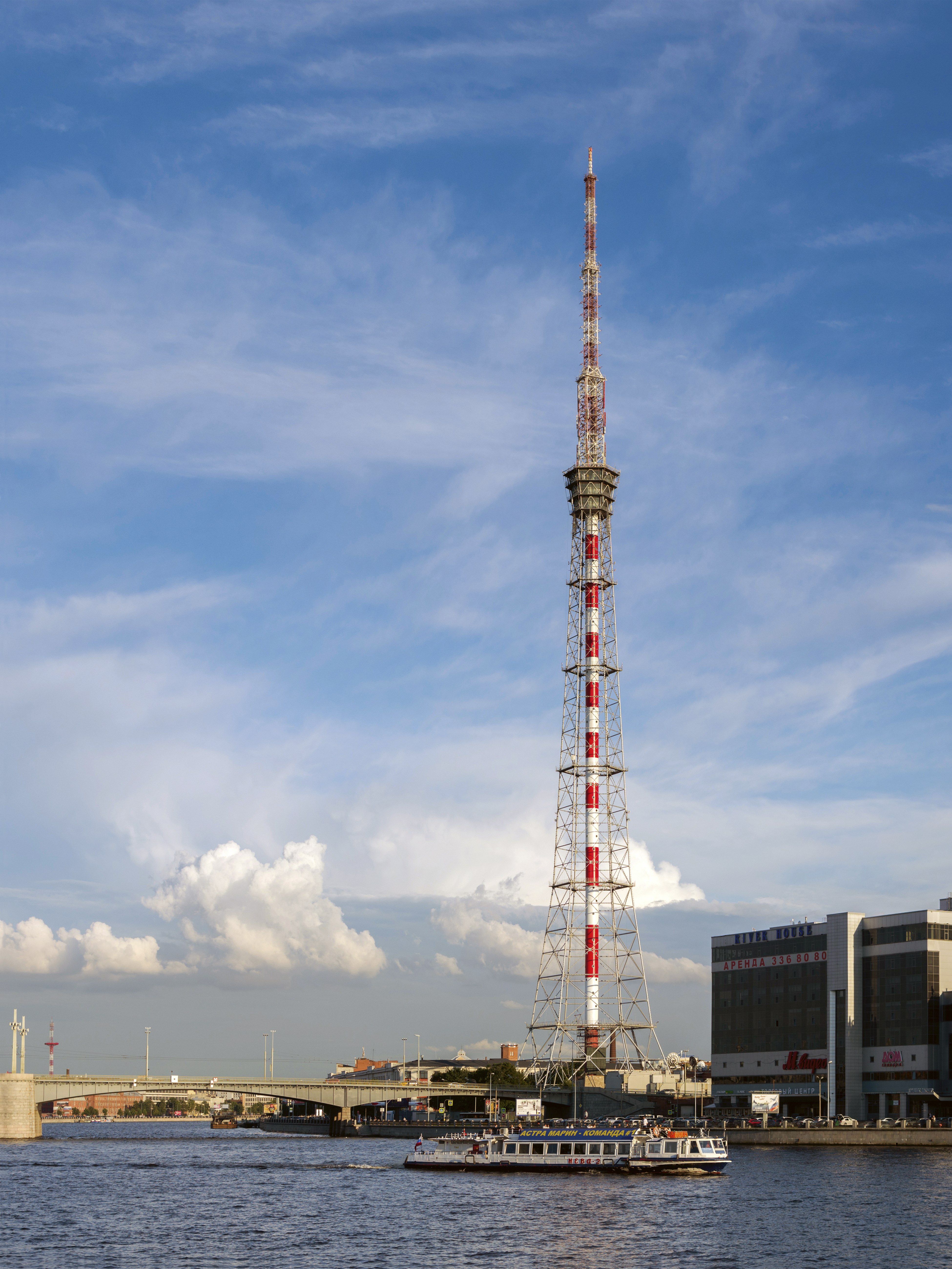 Television and Radio Tower in Saint Petersburg